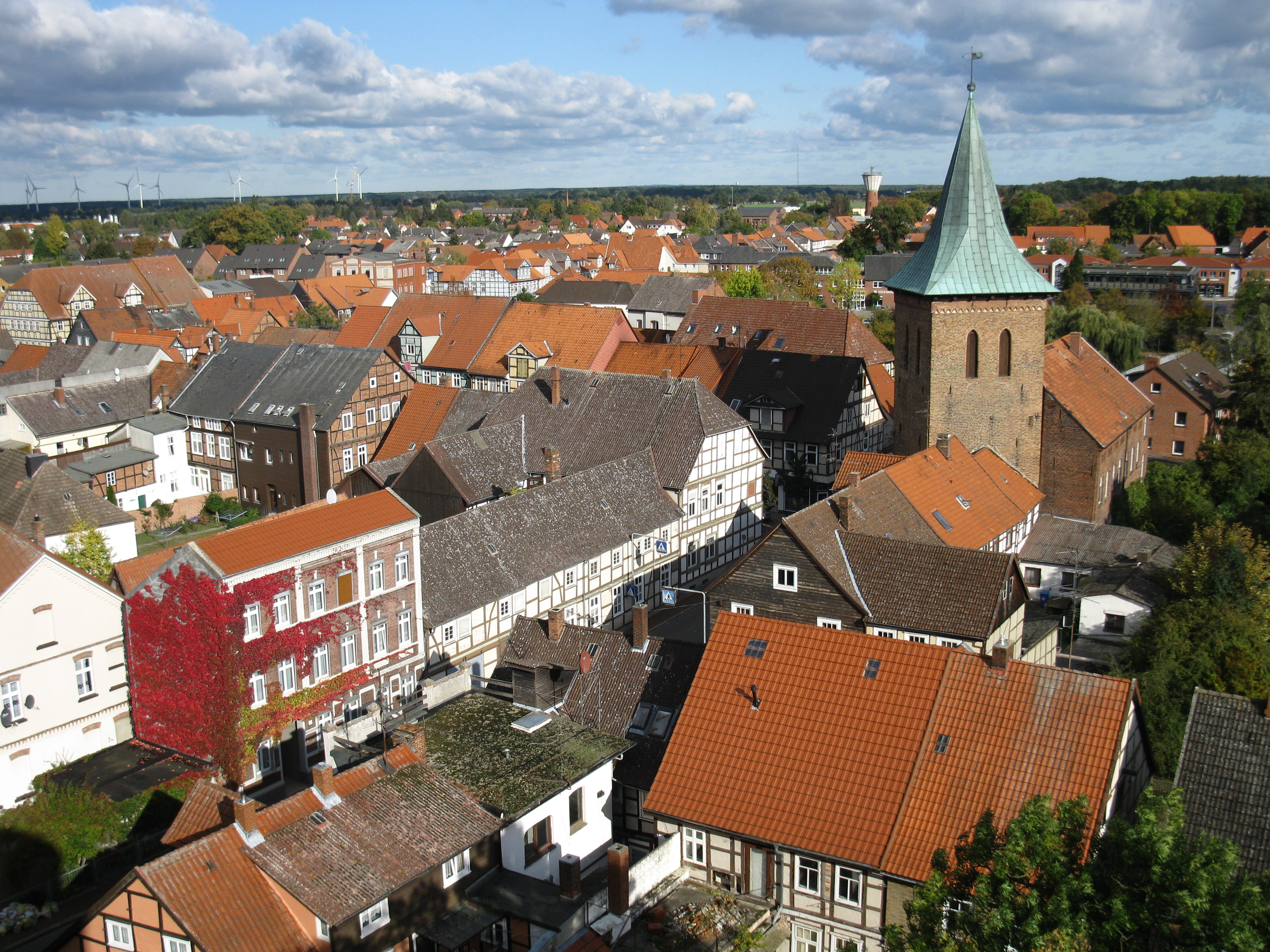 General view, Luechow, Germany